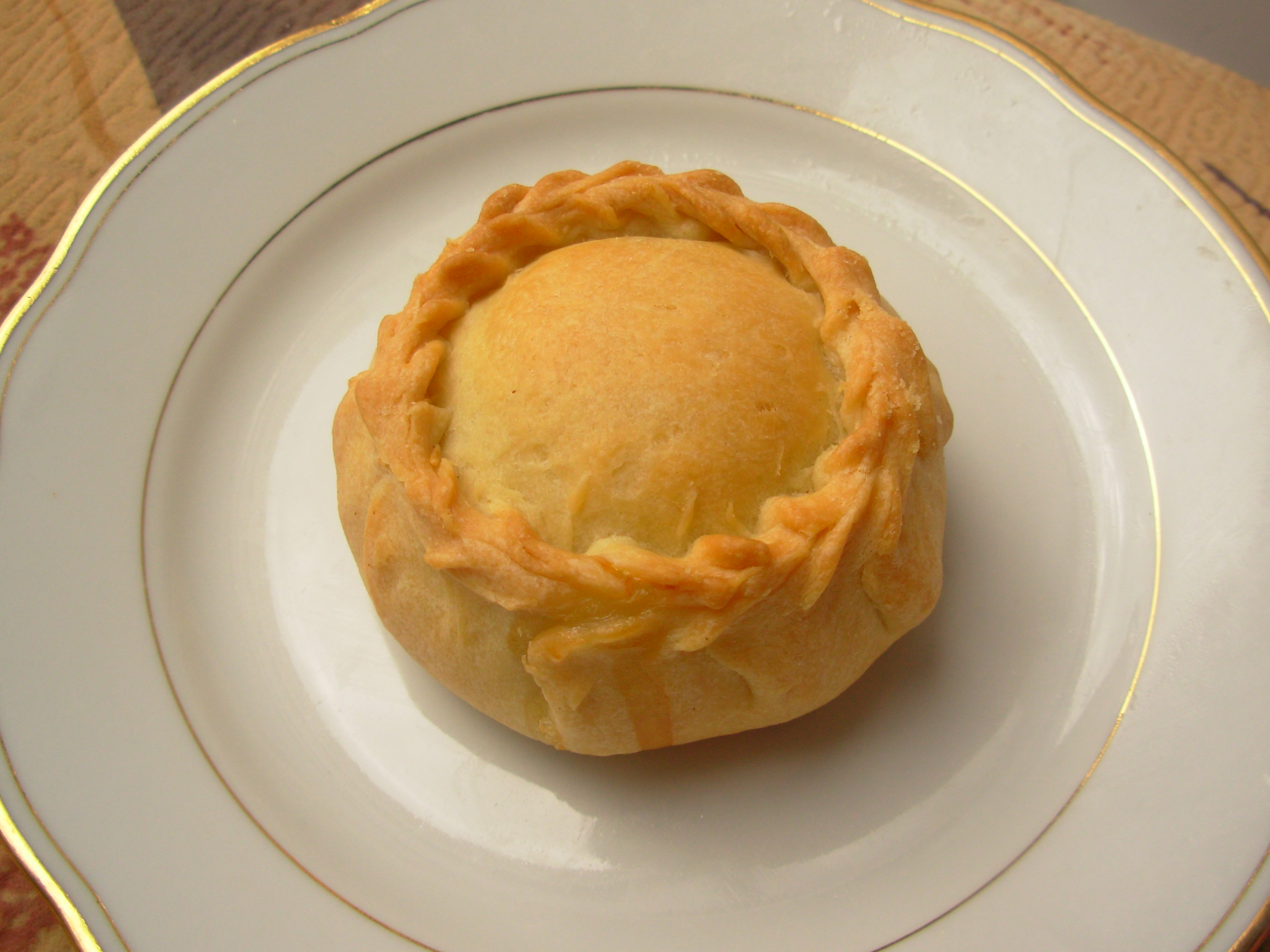 beken